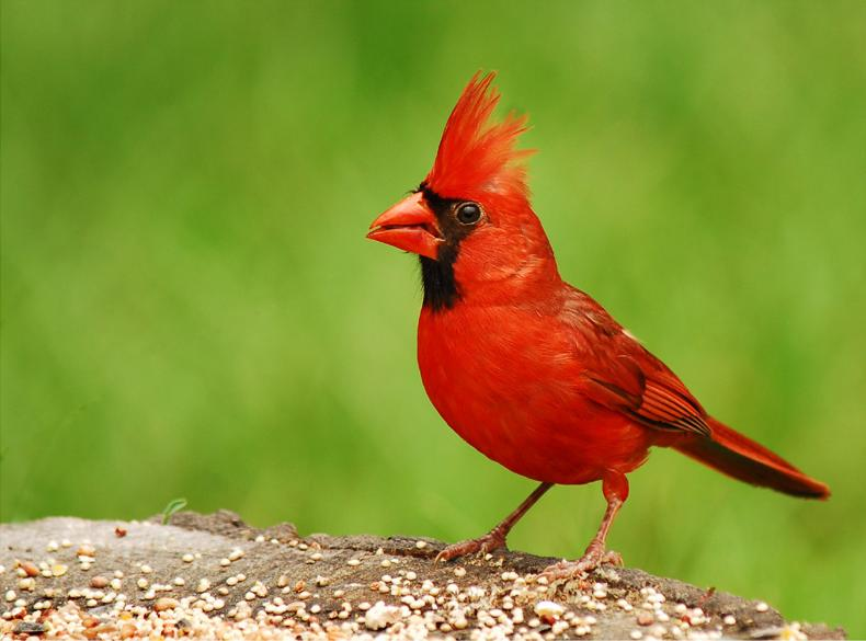 Picture of Cardinal modified from FWS